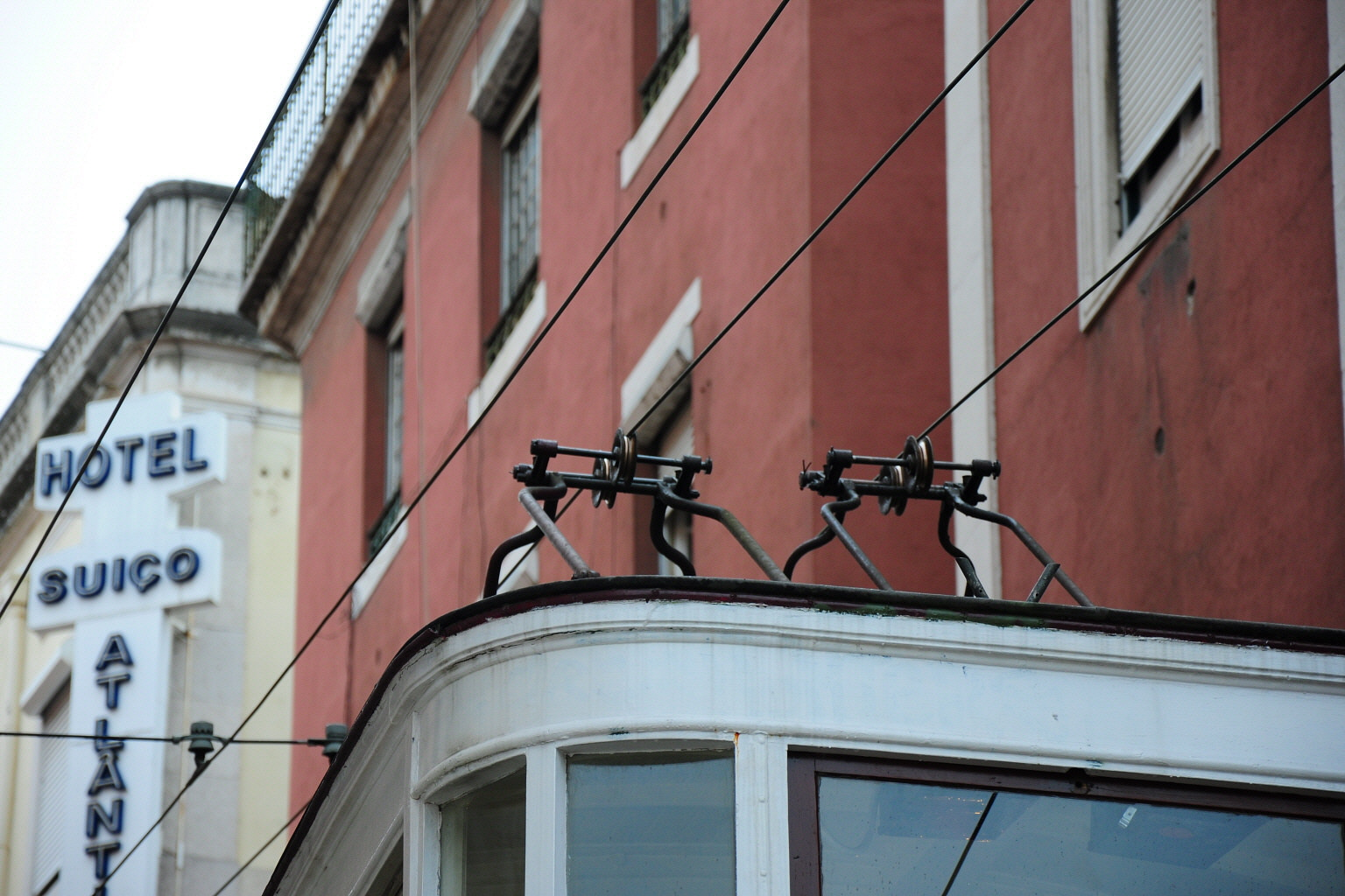 Glória Funicular, Lisbon, detail